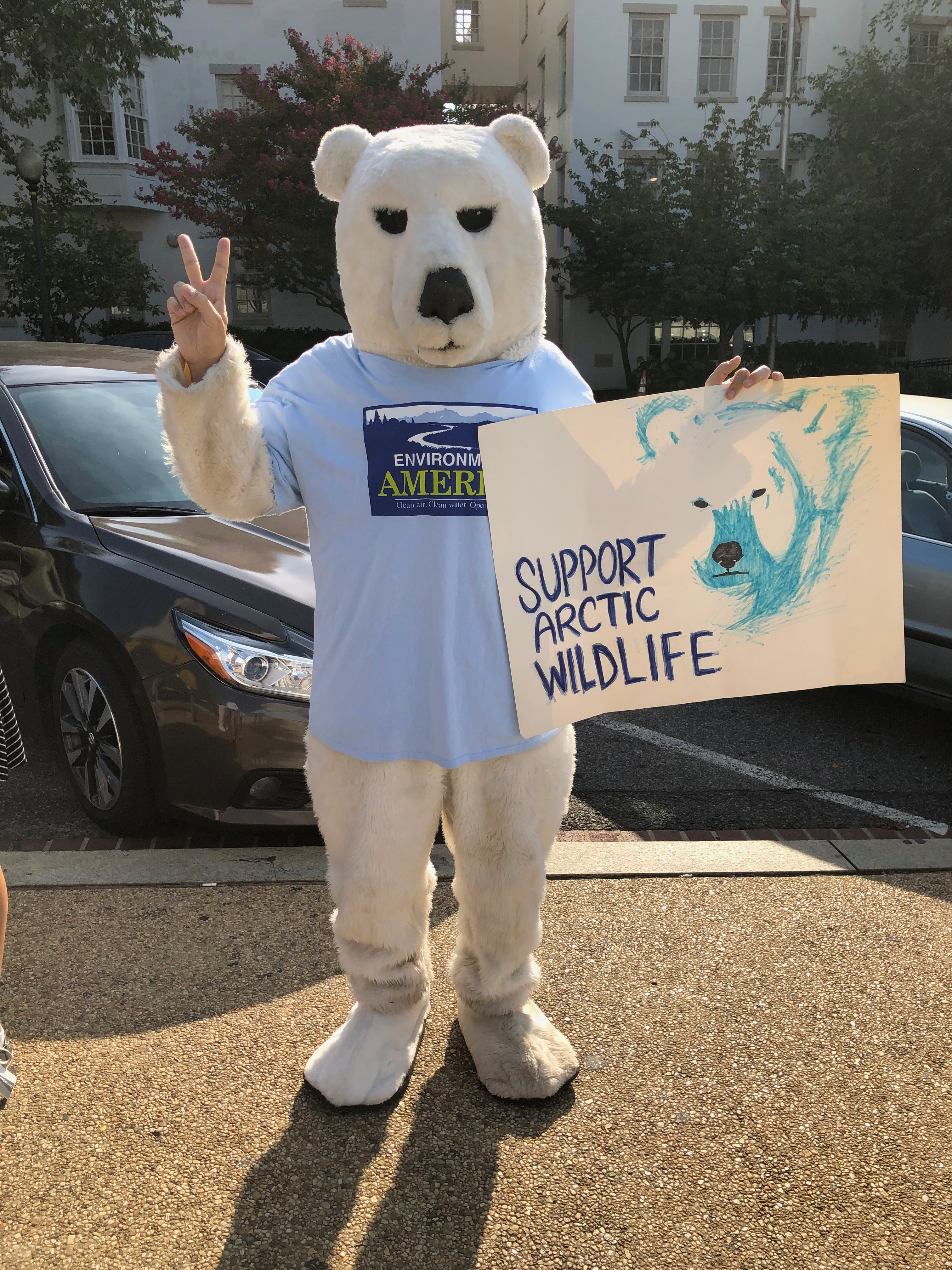 Climate activist at Capitol South Metro in 2019 dressed in Polar Bear Costume - Support Arctic Wildlife